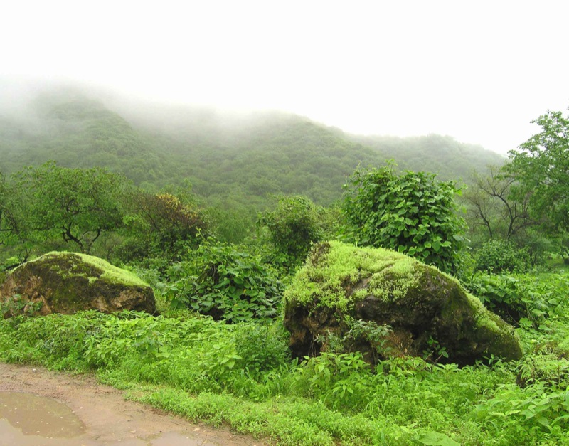 The Dhofar Mountains near Salalah in Oman, after monsoon rains.